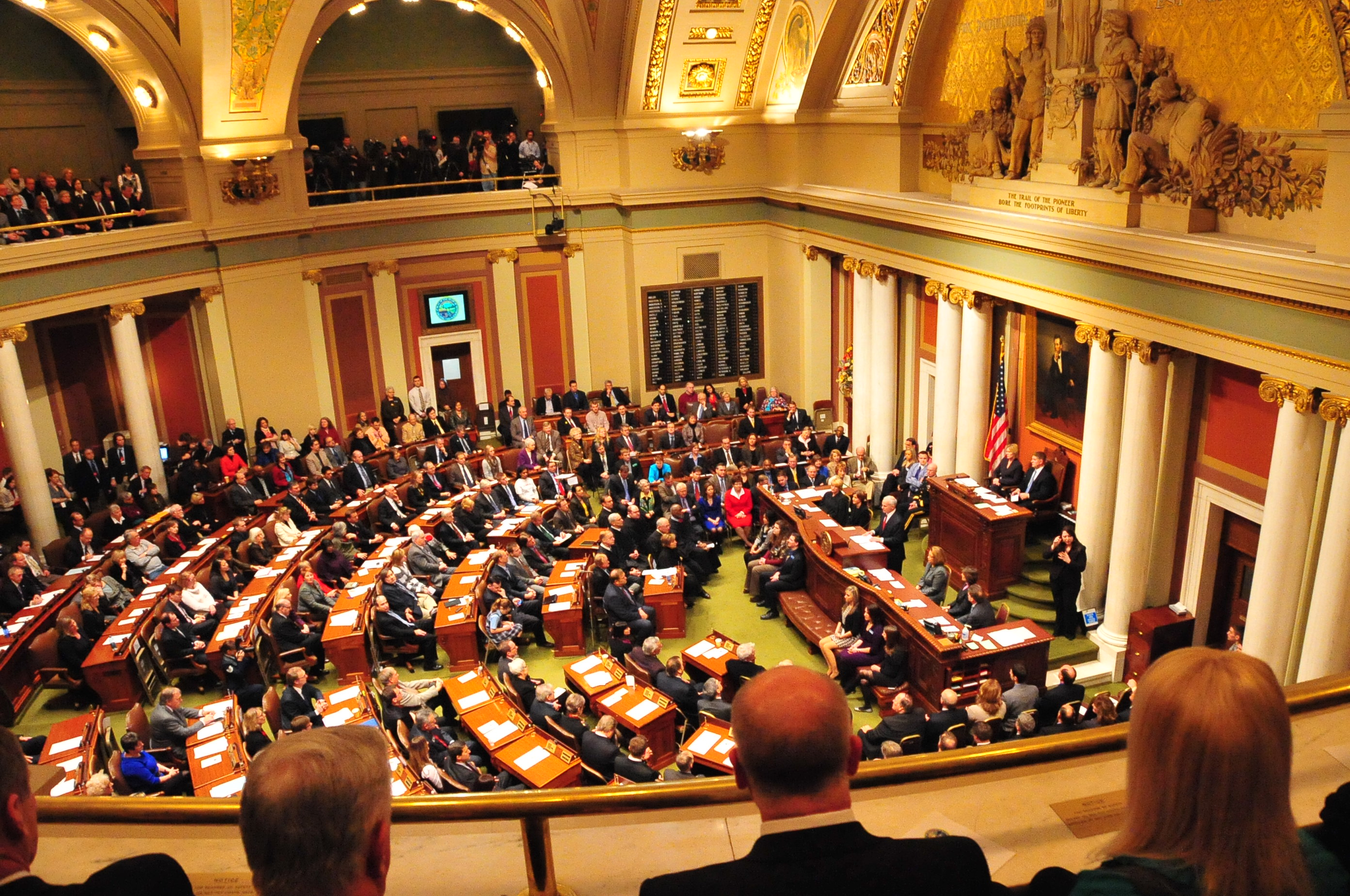 Governor Mark Dayton delivers his first State of the State address to a Joint Session of the Minnesota Legislature, laying out his vision for a better Minnesota.